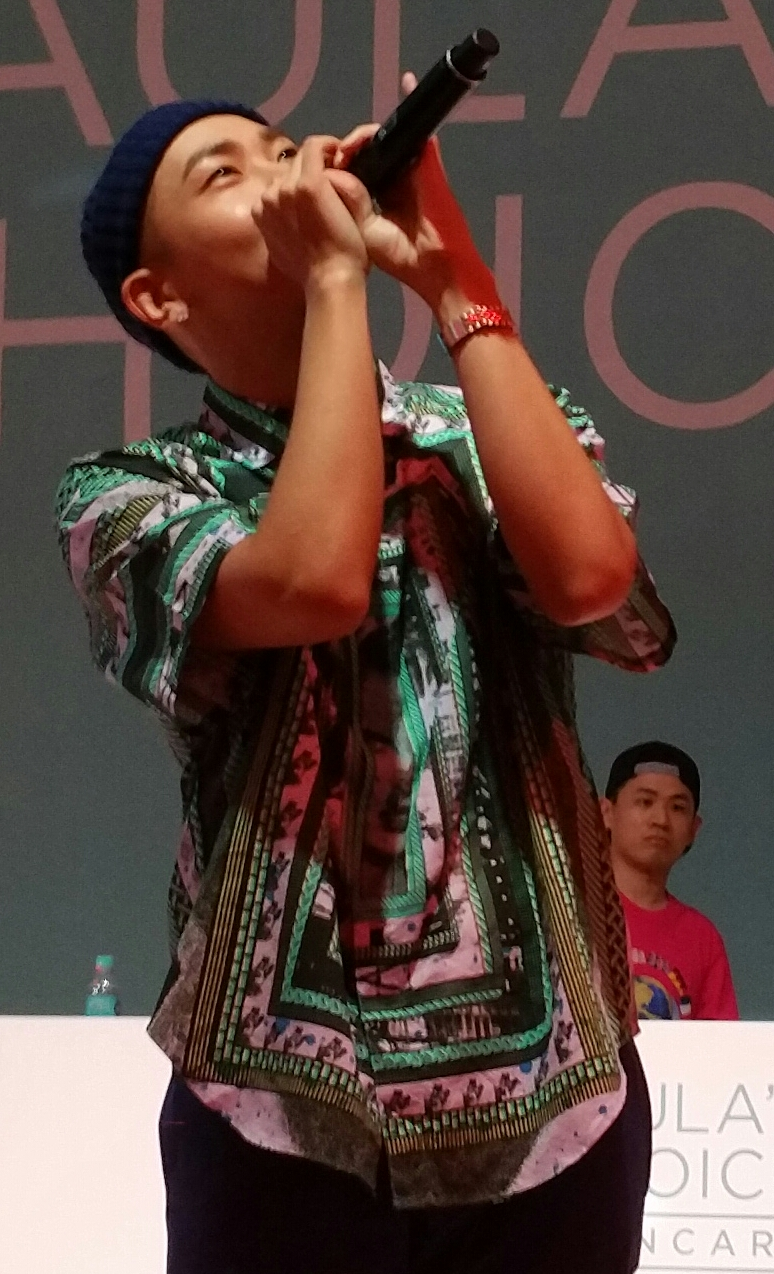 Loco performing at Paula's Choice 10th Anniversary Celebration event, Namsan J-Gran House, Jangchungdan-ro, Jung-gu, Seoul.